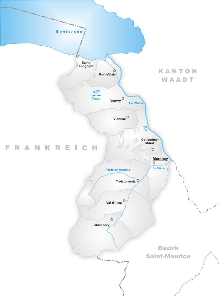 Municipalities of District Monthey